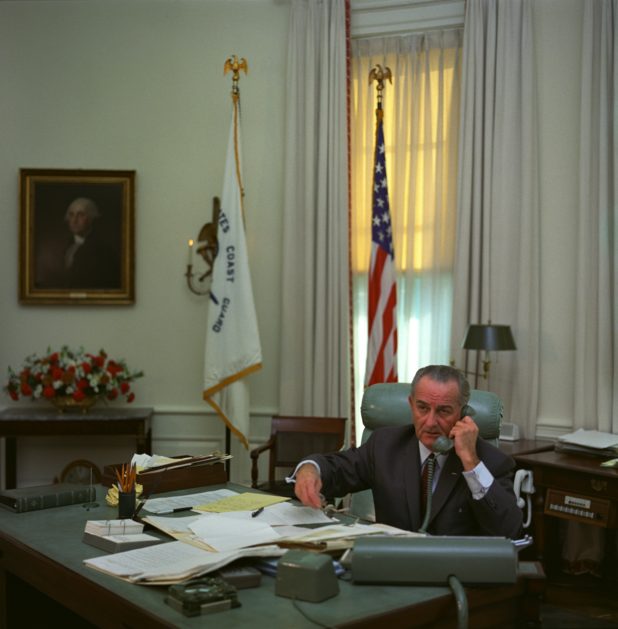 President Lyndon B. Johnson on the telephone